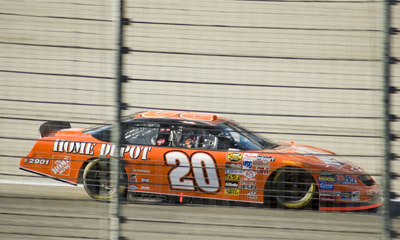 Tony Stewart races by at Texas Motor Speedway. Home Depot use of orange for marketing.